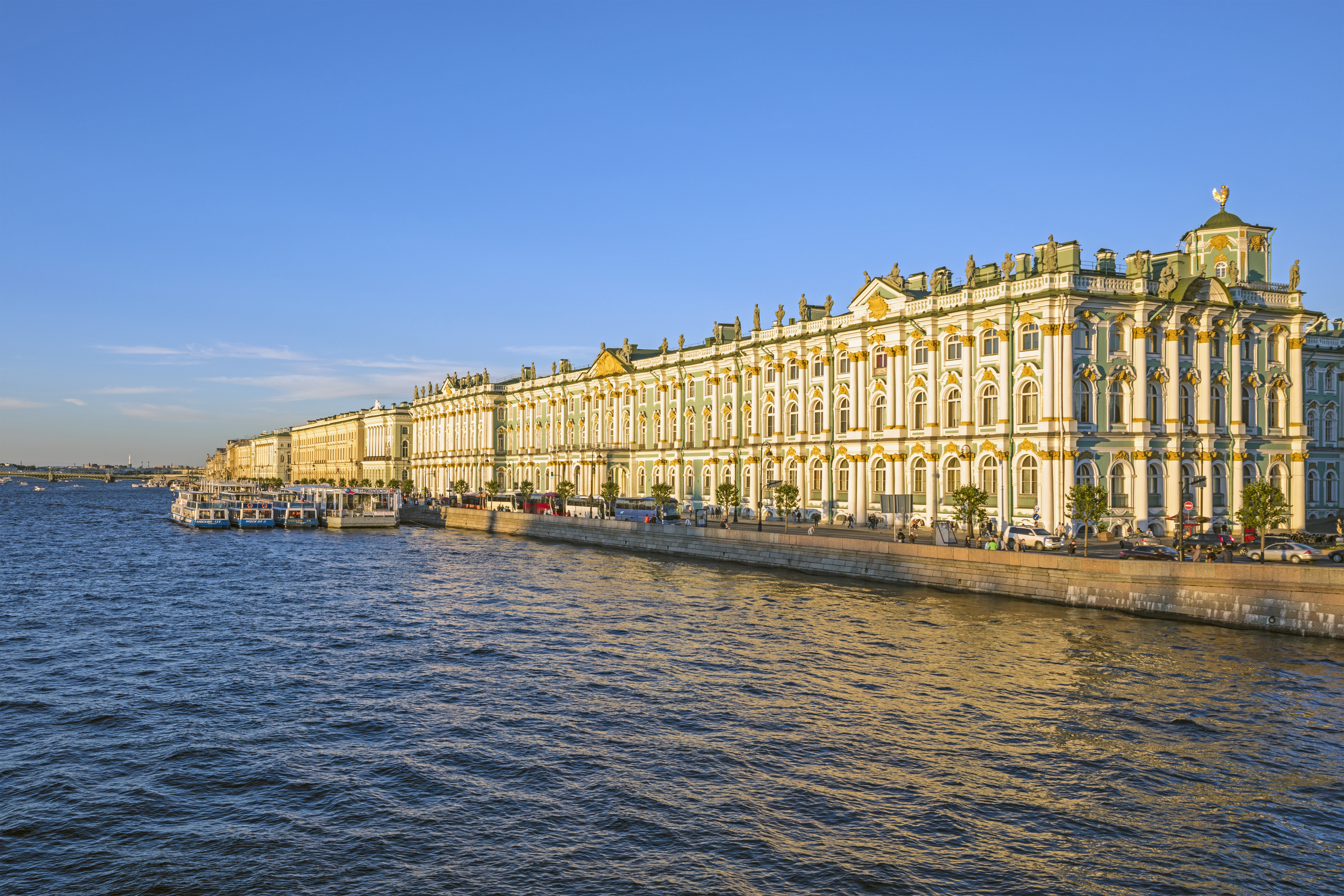 Winter Palace and Hermitage (Palace Embankment)